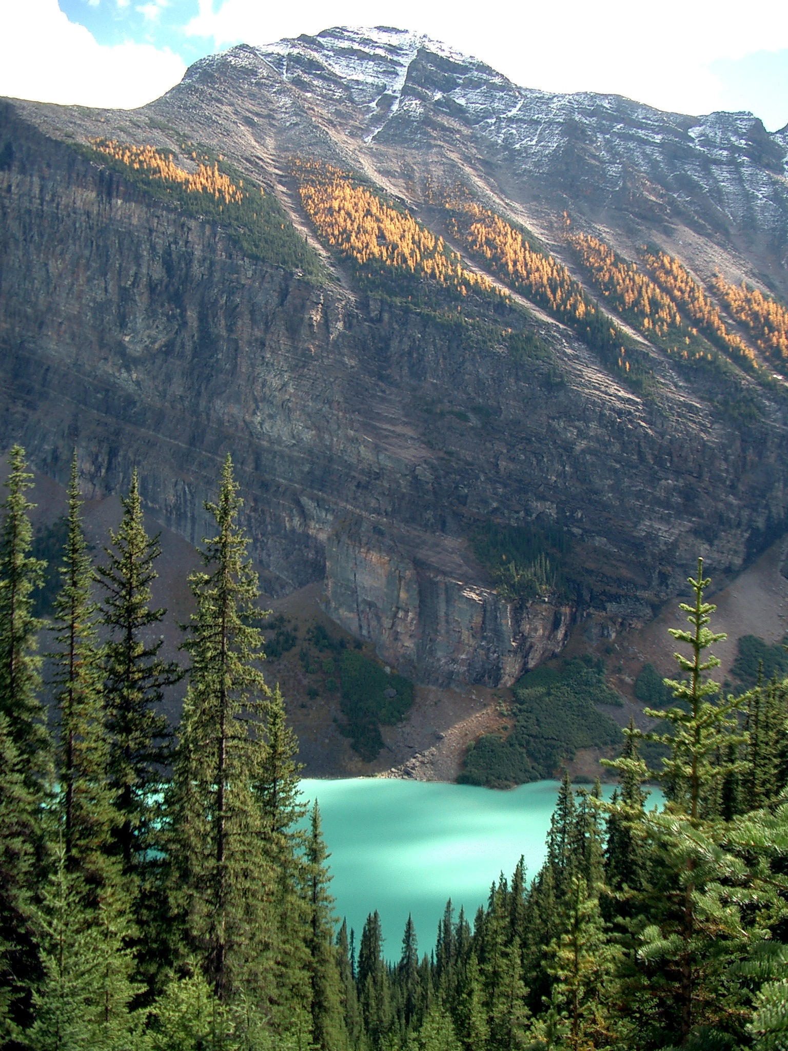 Lake Louise in Alberta, Canada, with steep, striped mountain and autumn-yellowing trees in the background.